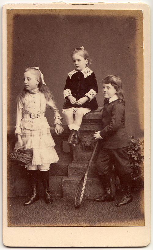 1882 photo-portrait of Sermonda, John and Randulphus Burrell who lived at Merrion Square, Dublin. Photographer: Louis Werner, 15 Leinster Street, Dublin.